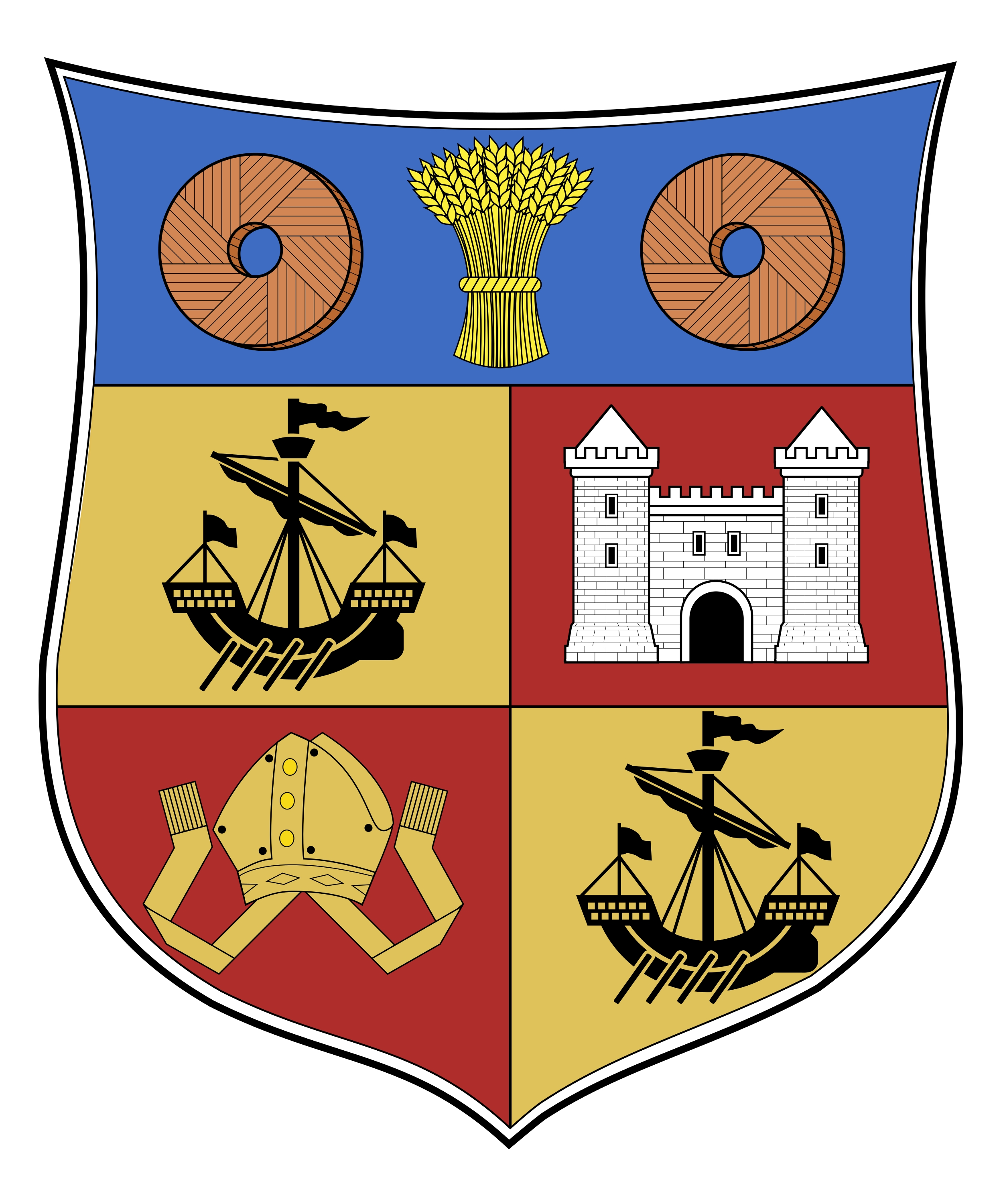 Coat of Arms of Partick, Glasgow, Scotland.